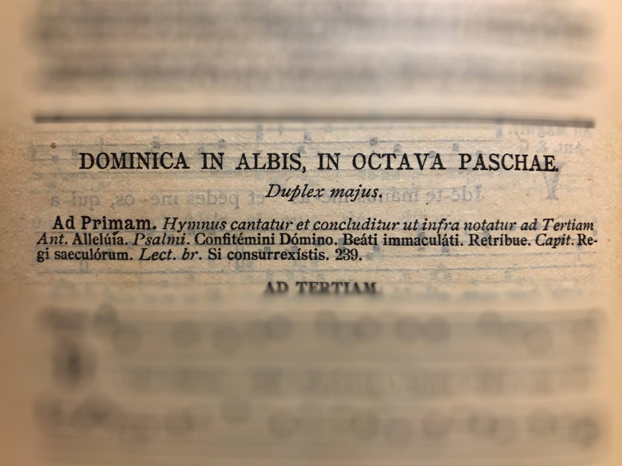 Beginning of the first Sunday after Easter in the Liber usualis